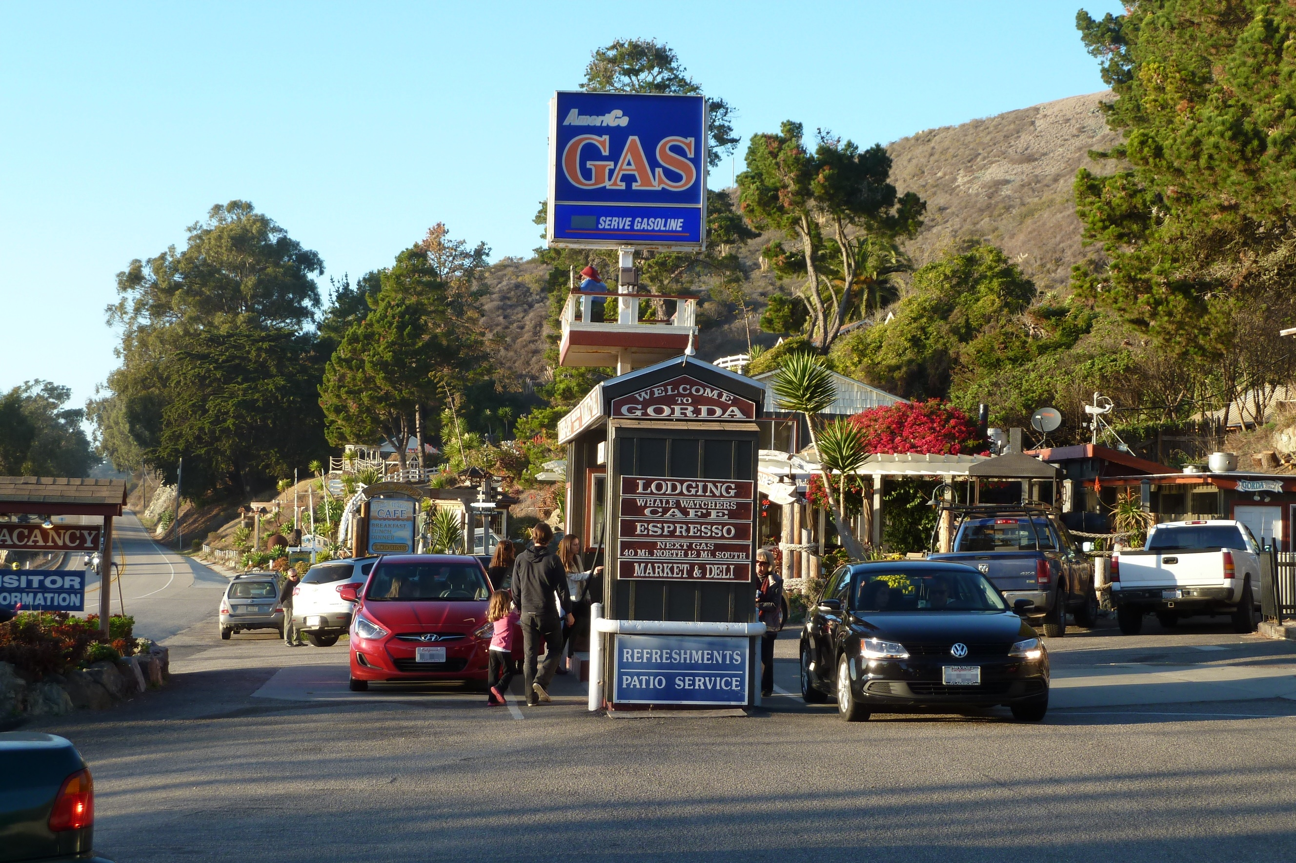 View of fuel pump cluster at Gorda, California, on California State Route 1. At times the motor fuel prices here have been the highest in the United States, as the revenues are used to subsidize the cost of Diesel fuel for generating electrical power in this remote location.